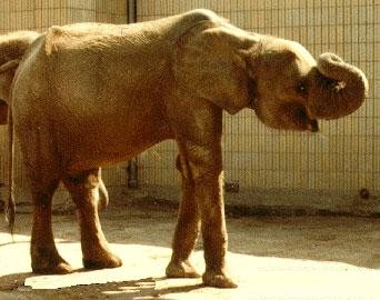 Loxodonta cyclotis, Elephant Dima (1953-1979), Frankfurt Zoological Garden, Germany, 1976